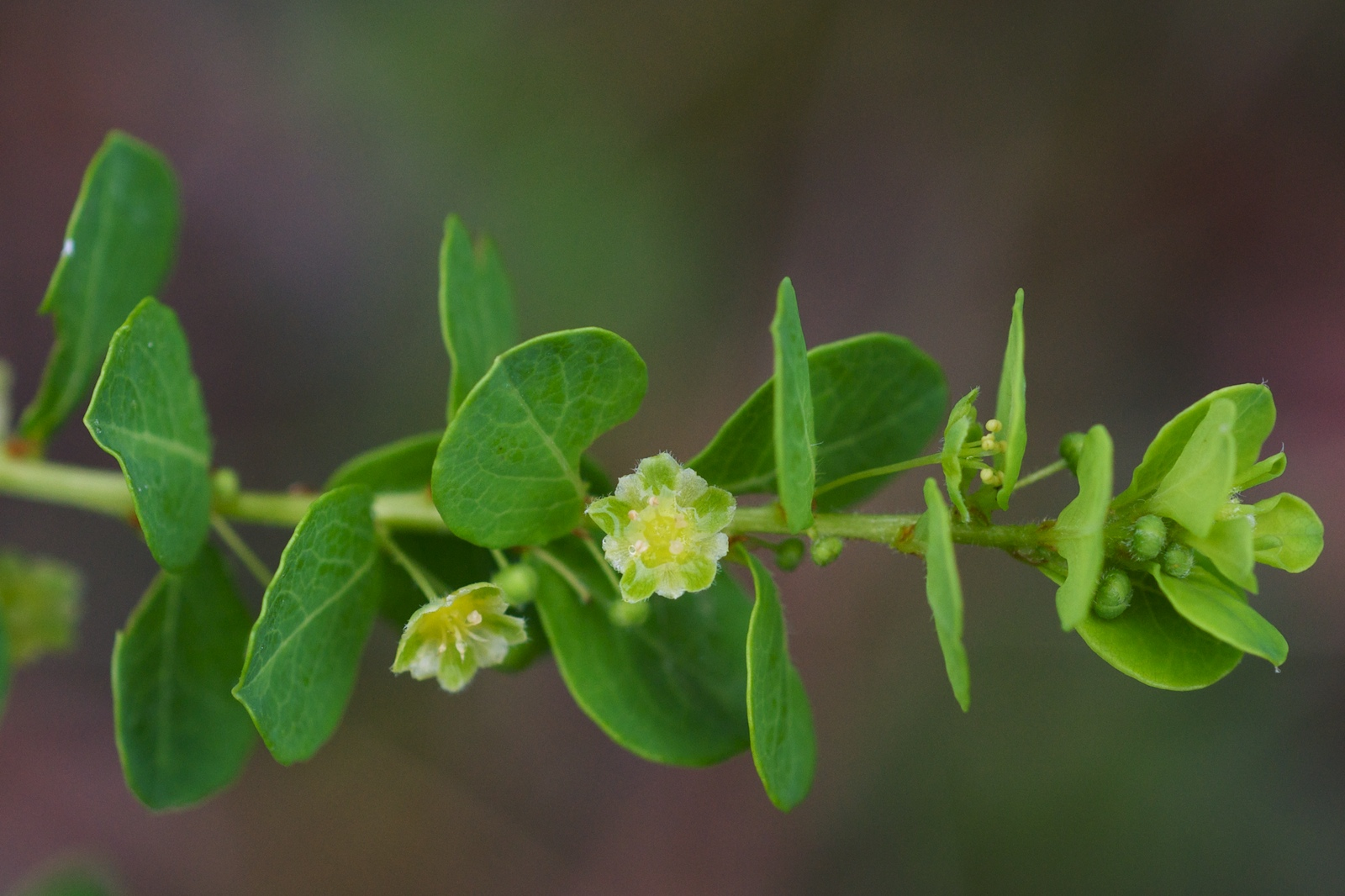 Common name: Missouri maidenbush Uncommon species from Alabama, Texas, Oklahoma, Arkansas, Missouri Photographed in the Kathy Stiles Freeland Bibb County Glades Preserve, Bibb County Alabama